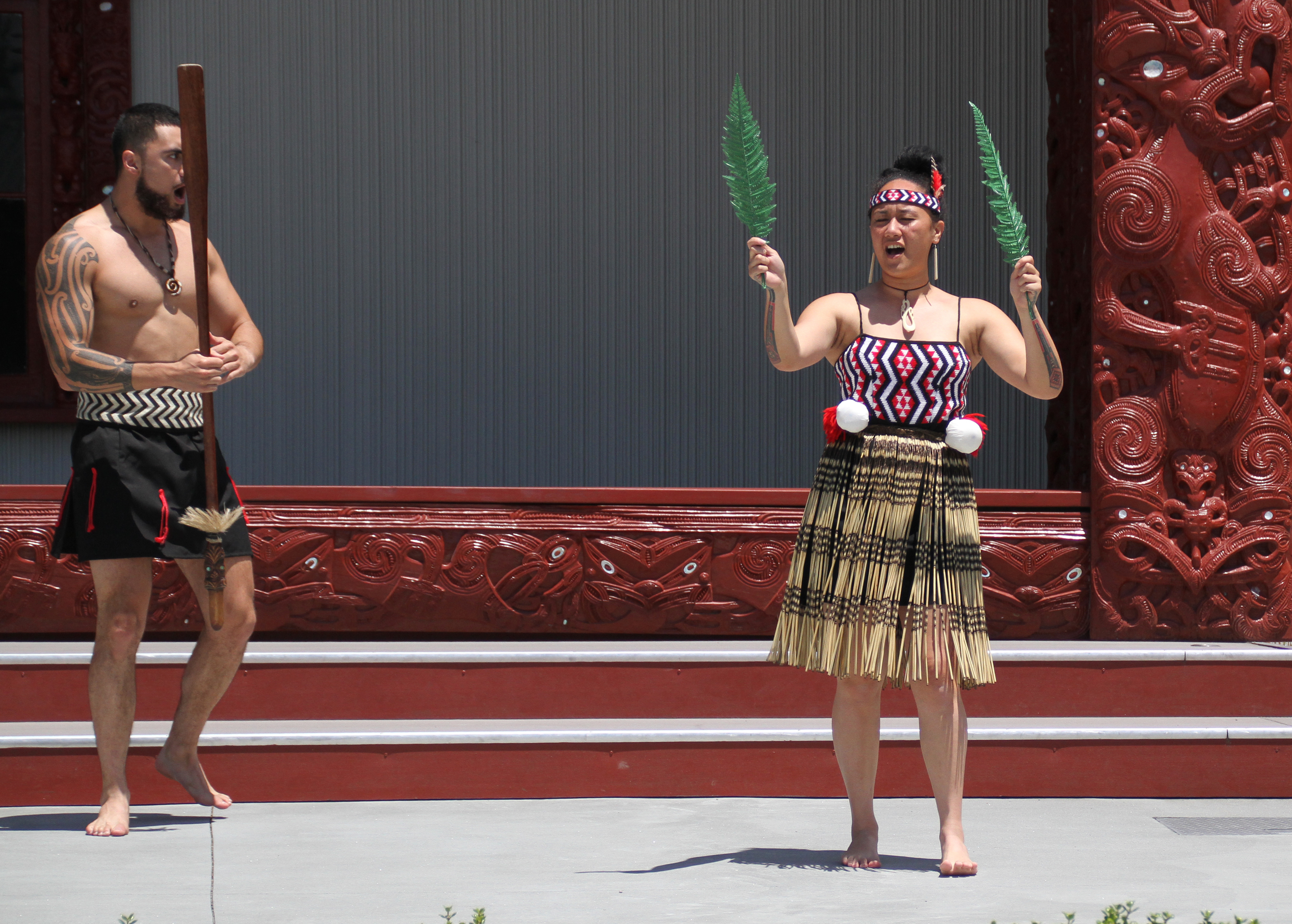 Maori Greeting 4